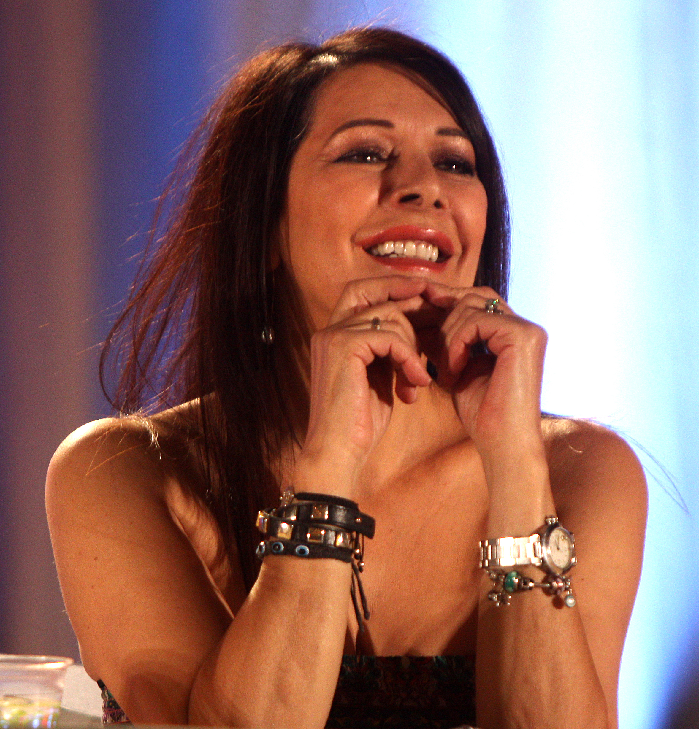 Marina Sirtis speaking at the 2012 Phoenix Comicon in Phoenix, Arizona.